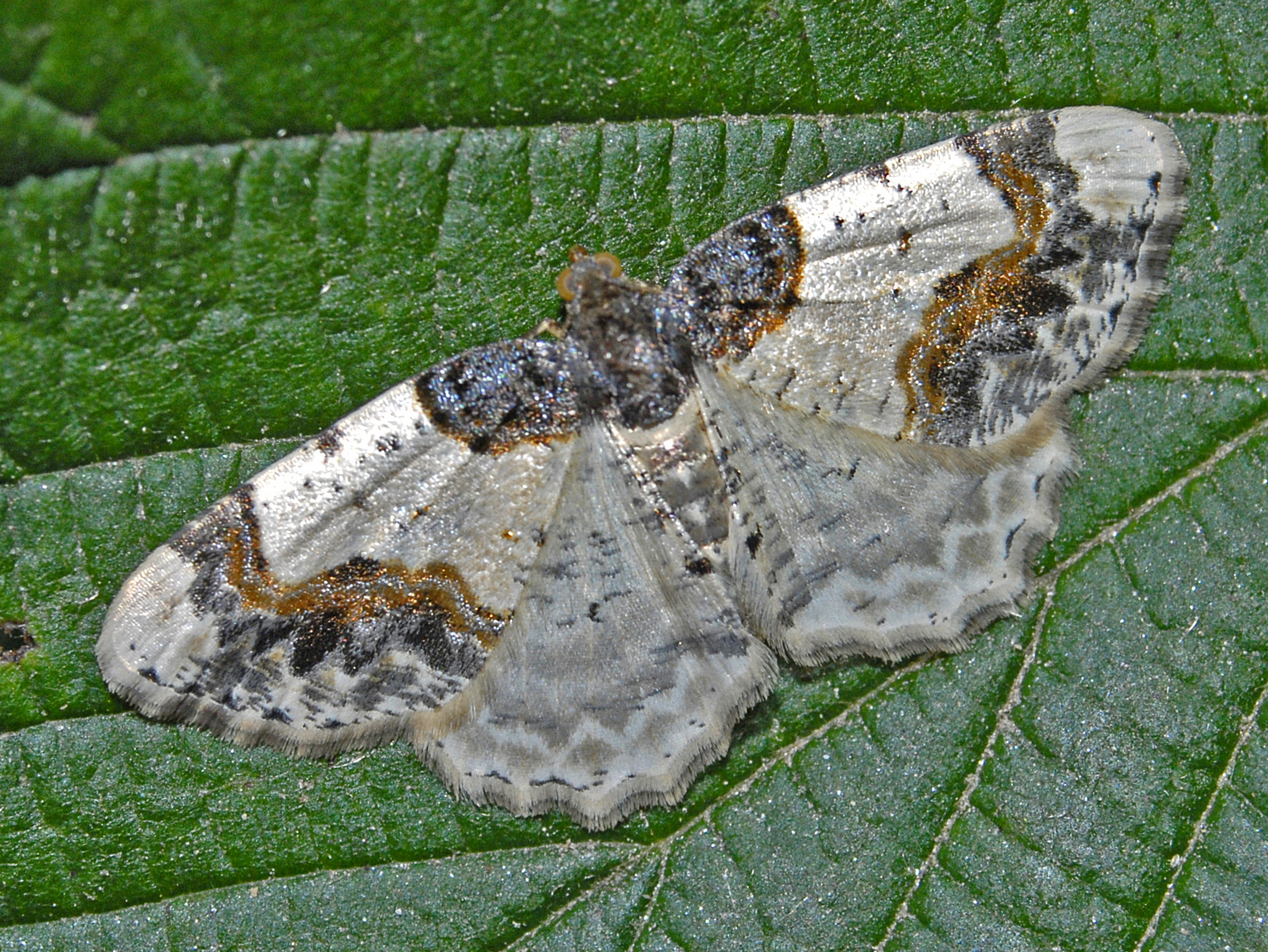 Adult of Ligdia adustata. Passo del Faiallo, Genova, Italy